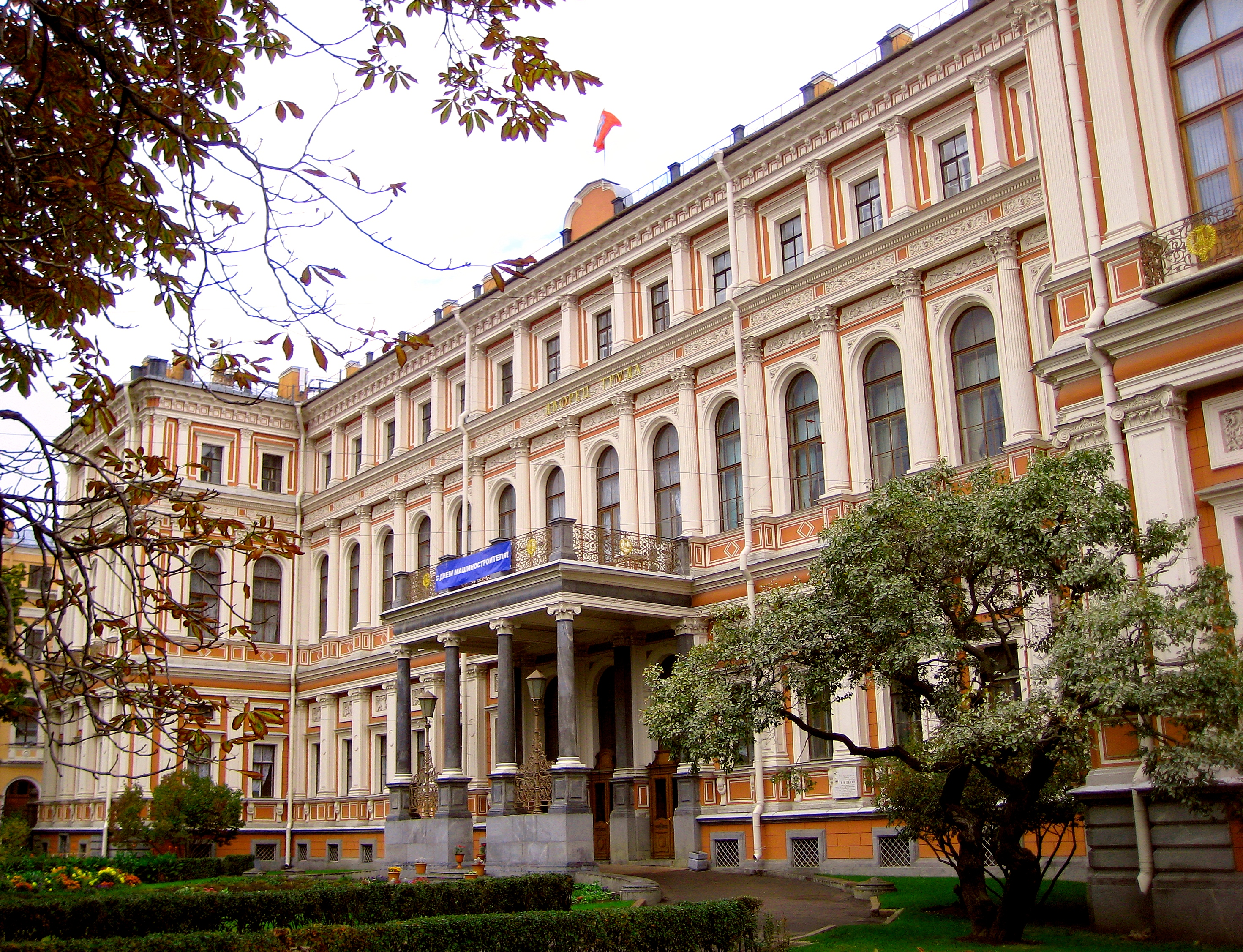 Nikolaevsky Palace: Truda Square, 4-B / Konnogvardeysky Boulevard, 23 / Galernaya Street, 24-B. Admiralteysky District, St. Petersburg